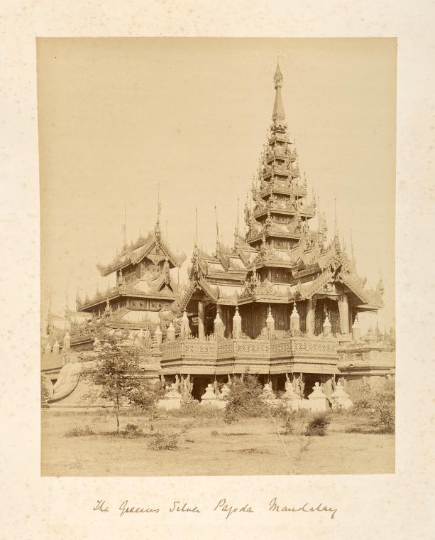 Queen's Silver Pagoda, Mandalay. View of buildings in the Glass Palace Monastery (Hman Kyaung), Mandalay, Burma (now Myanmar). Albumen silver print Height: 25.5 cm (10 in); Width: 20.5 cm (8 in) dimensions QS:P2048,25.5U174728;P2049,20.5U174728.